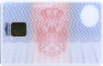 Reverse of the blank Serbian national ID card